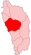 Map of Dominica showing Saint Joseph parish.